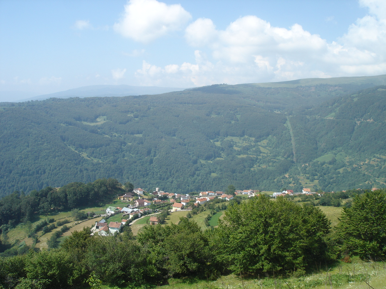 Novo Selo in Bogovinje Municipality, near Tetovo, Macedonia